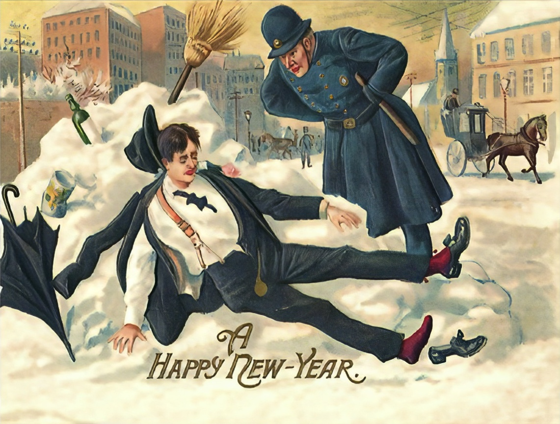 Postcard picture for New Year's; eBay store Web page shows opposite side of card, with "Made in Germany" along lefthand edge.